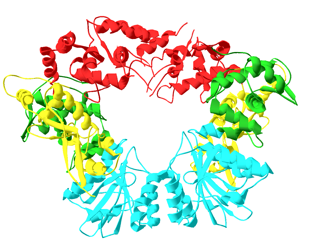 Endonuclease FokI dimer derived from Planomicrobium okeanokoites. Color was determined individual domain name: - red (the first domain; D1), green (second domain; D2), yellow (third domain; D3) - responsible for the connection to DNA Endonuclease - blue - for the domain corresponding to the intersection of DNA. Crystallographic data visualization was made by Swiss-made PDBViewer 4.0.1 program of the file PDB:2FOK [1].